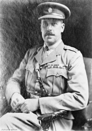 Portrait of Major Guy George Egerton Wylly VC, DSO, an Australian recipient of the Victoria Cross during the Second Boer War.